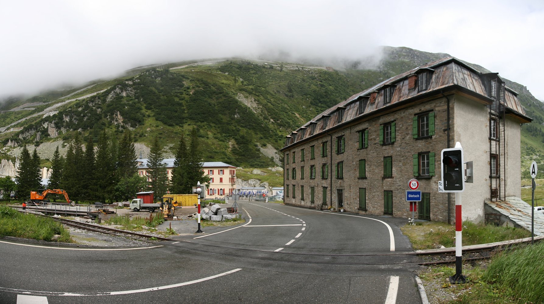 Gletsch in Valais, Swizerland, with Grimsl pass in the background and Furka-railline in the foreground